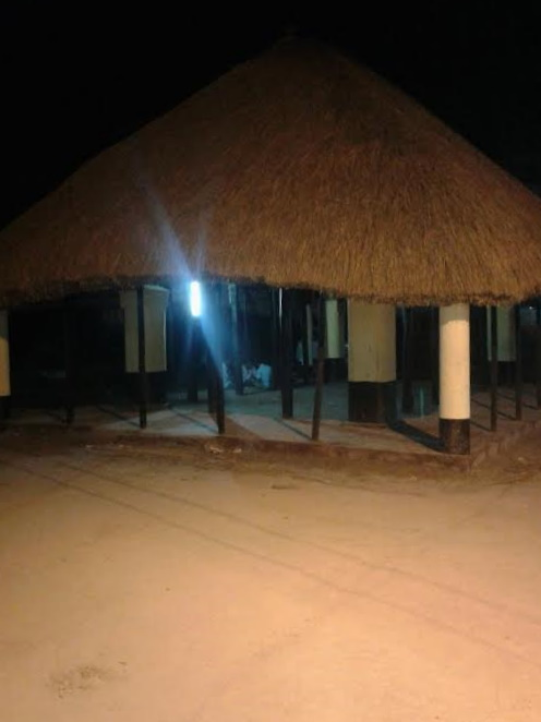 The structure made of concrete and Sal wood, covered by paddy straw.